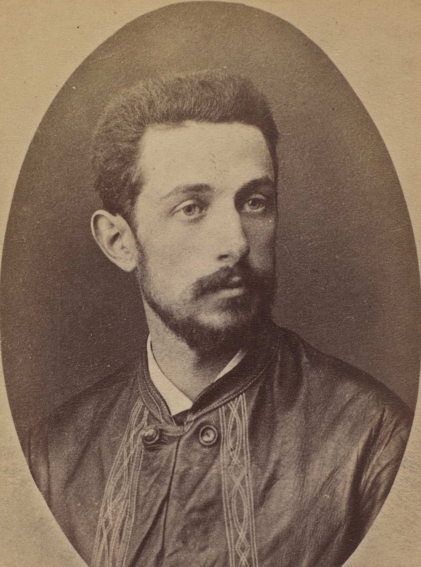 Mugshot; Photographs Depicted person: Paul Reclus – anarchist